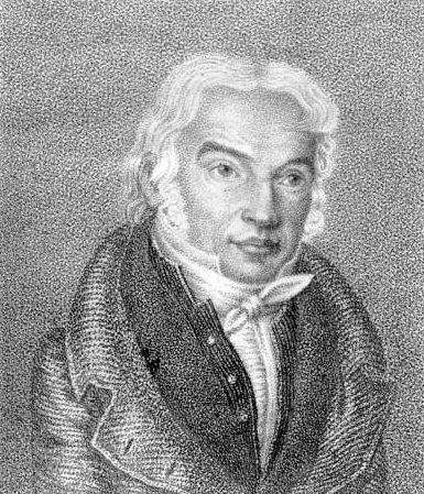 Italian composer Ambrogio Minoja (1752-1825). Stipple engraving by Luigi Rados (1773-1840).